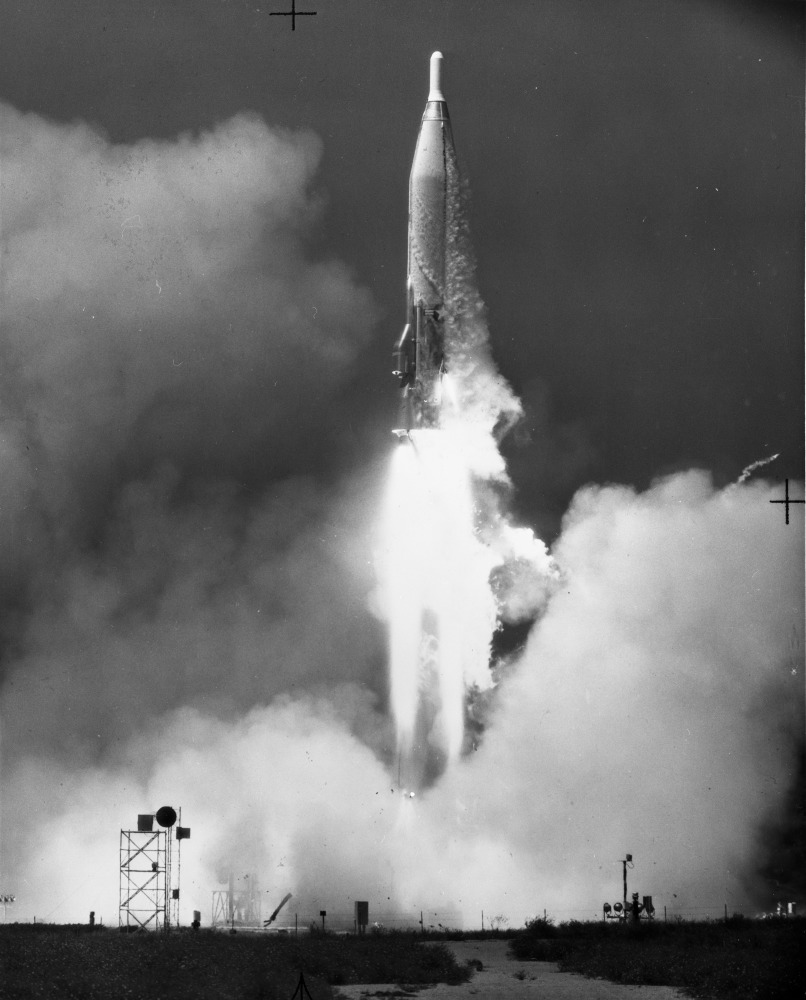 PictionID:40976928 - Title:Atlas ICBM Launch--'6595th Aerospace Test Wing (ASFC); Vandenberg AFB, Calif. (VAFB) - Catalog:14_001163 - Filename:14_001163.tif - PictionID:40977923 - Catalog:14_001259 - Filename:14_001259.tif - Image from the Convair/General Dynamics Astronautics Atlas Negative Collection---Please Tag these images so that the information can be permanently stored with the digital file.---Repository: San Diego Air and Space Museum